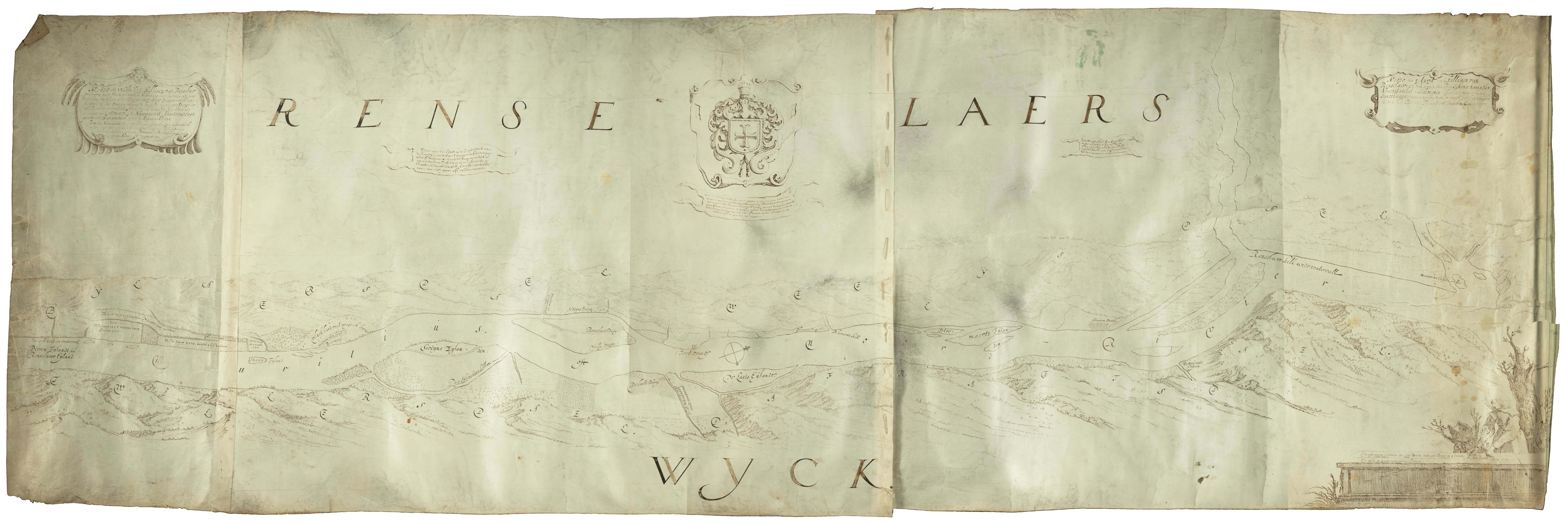 Original Map of Rensselaerswyck, probably created around 1632, but not known exactly. Authorship is usually credited to Gillis van Schendel, but due to timing inconsistencies, this is most likely not true. Believed to be the first map created of the Manor of Rensselaerswyck. The Hudson River flows from right to left; north is to the right.